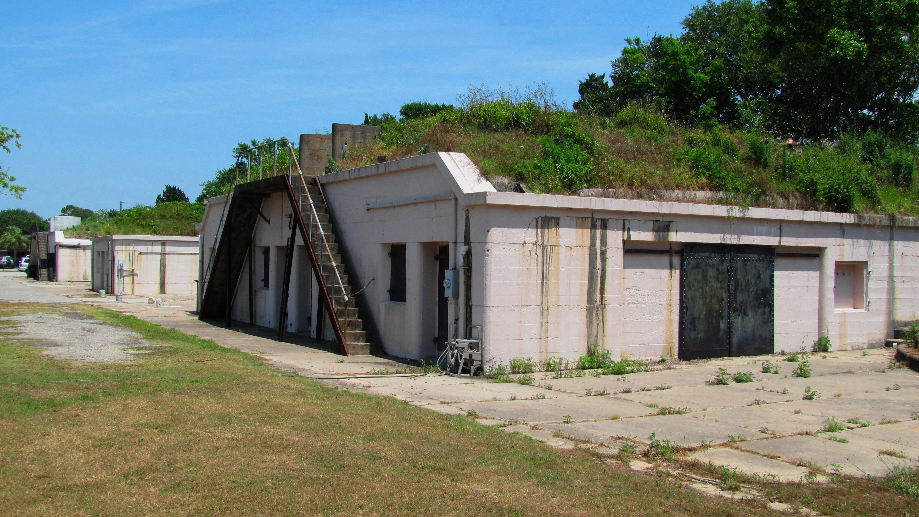 Battery Gadsden (2017 I'on Ave.) on Sullivan's Island in Charleston County, South Carolina, USA. Built 1903-1904, this structure is now listed on the National Register of Historic Places.